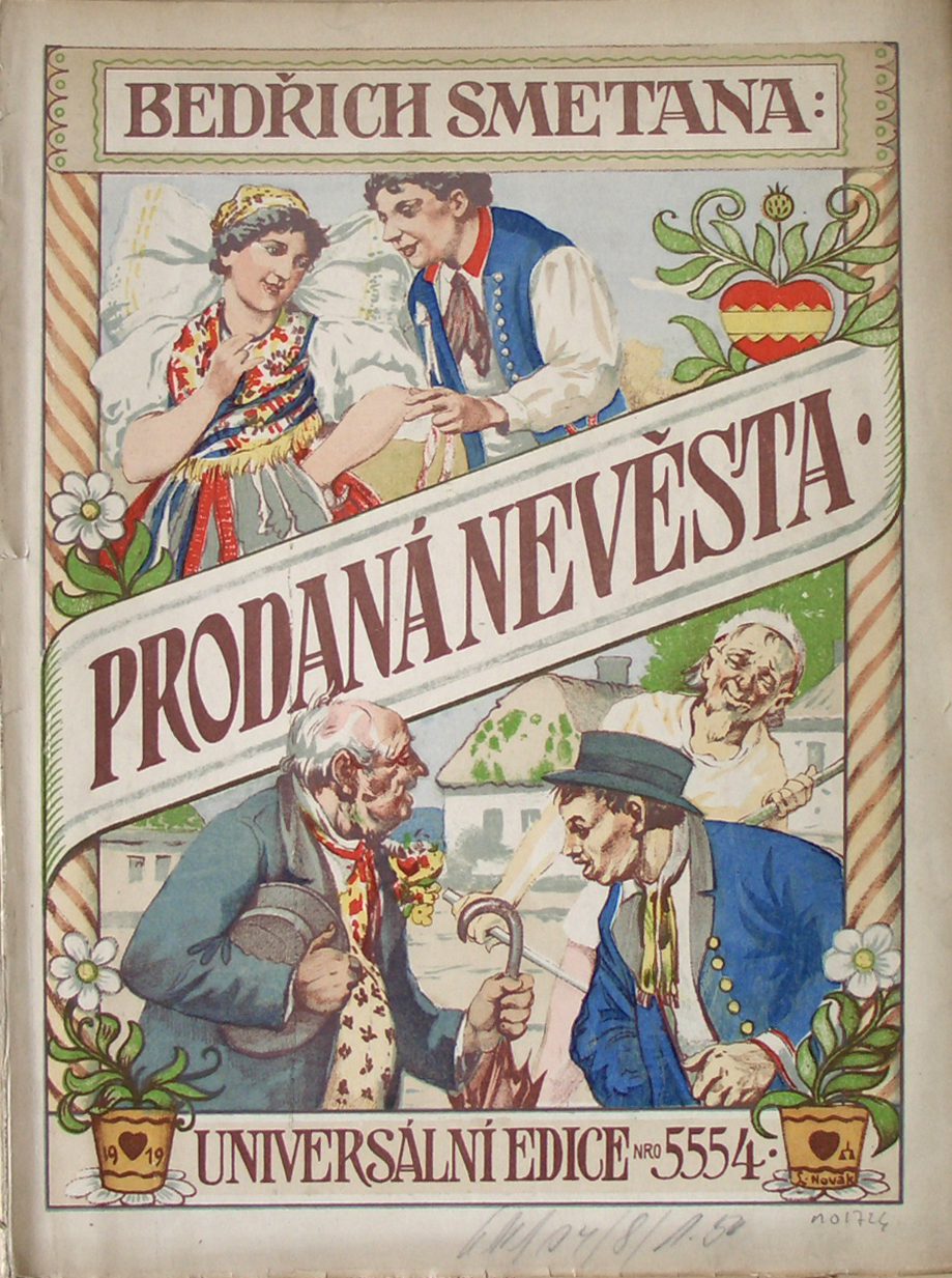 Illustrated cover of the score of Bedrich Smetana's The Bartered Bride.